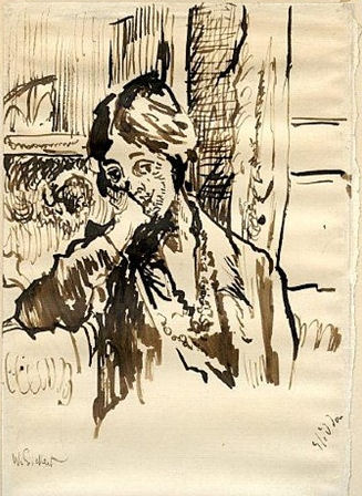 Artist and suffragette Katie Edith Gliddon (1883-1967) by Walter Sickert (1860-1942) c1912